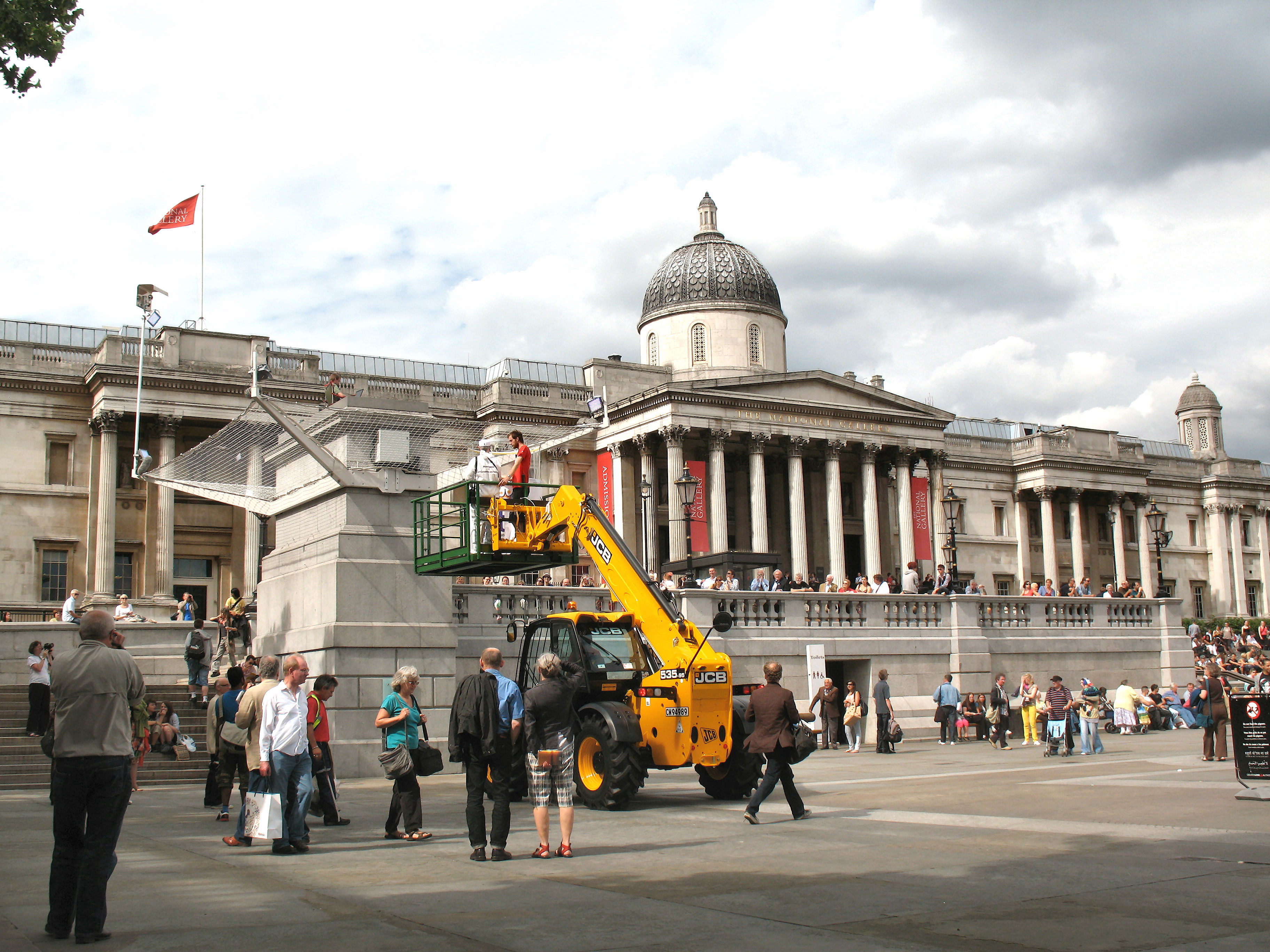 A JCB machine takes the next person onto the plinth and takes the previous one down at 16 July 2009 at 3:59pm, Trafalgar Square, London, England.